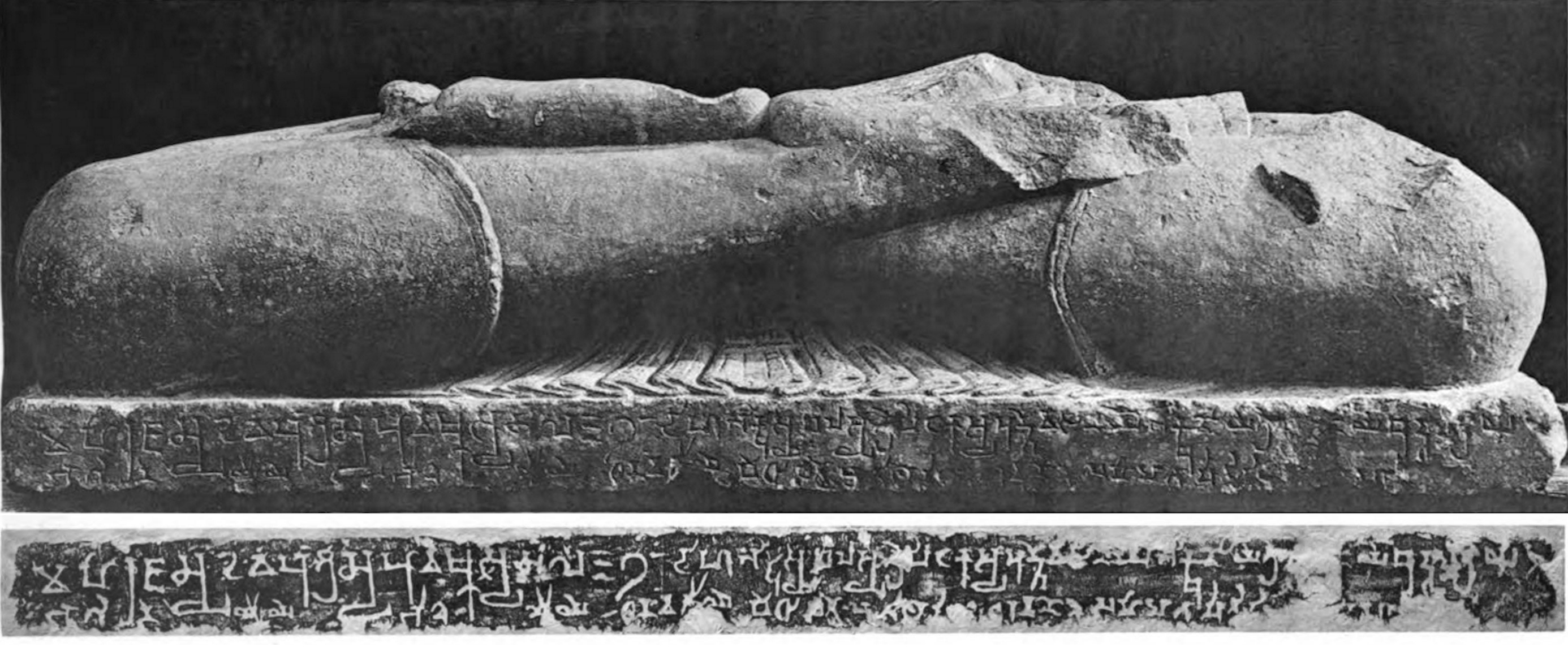 Mathura sculpture Huvishka year 33 The inscription reads: "In the year 33 of the Maharaja, the Devaputra Huvishka, on the 8th day of the 1st summer (month), a Bodhisattva was set up at Madhuravanaka by the nun Dhanavati, the sister's daughter of the nun Buddhamitra, who knows the Tripitaka, a female pupil of the monk Bala, who knows the Tripitaka, together with her mother and father....".Epigraphia Indica 8, P.182